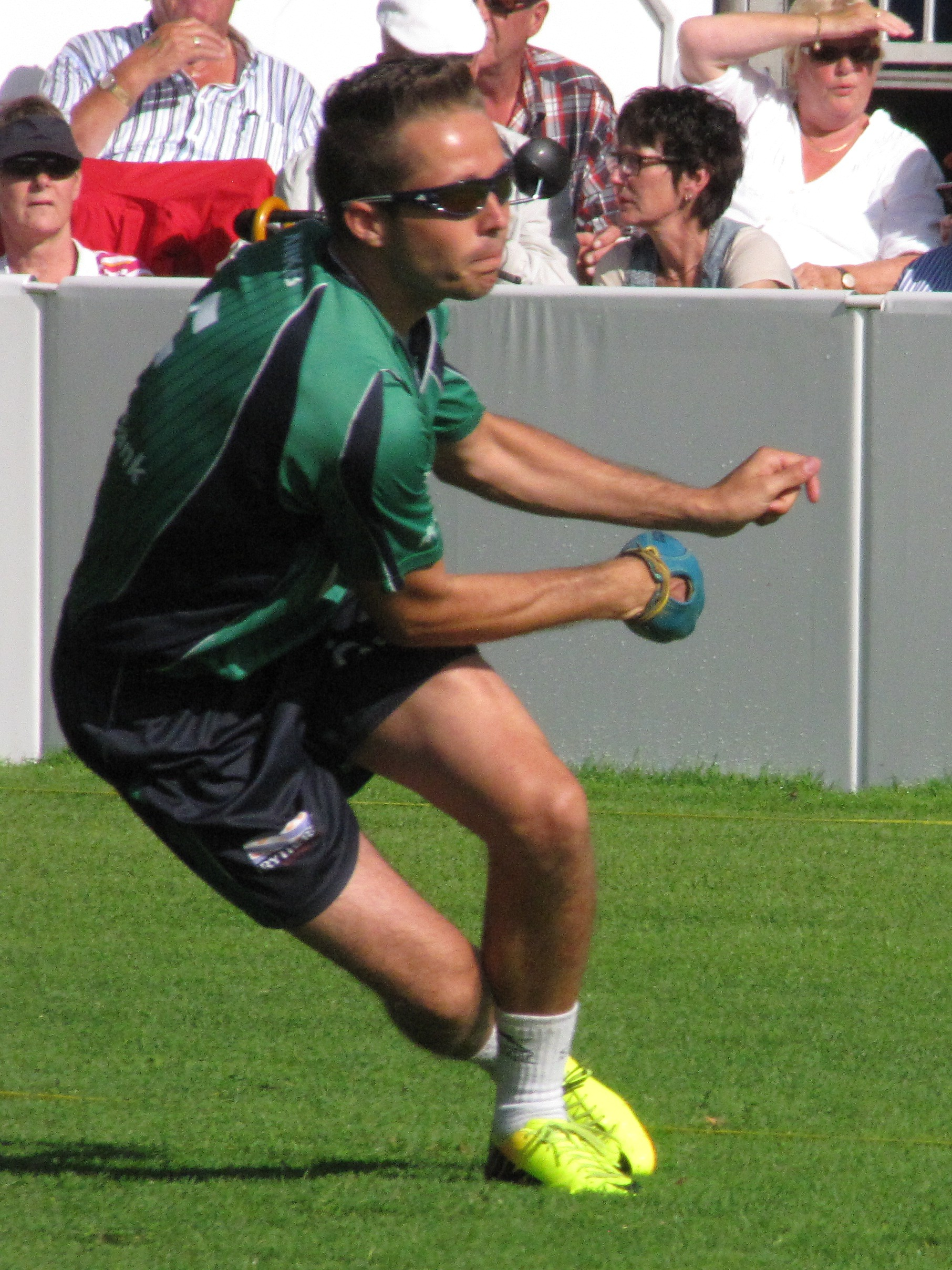 Renze Pieter Hiemstra on the PC of 2013Frysk: Renze Pieter Hiemstra op de PC fan 2013